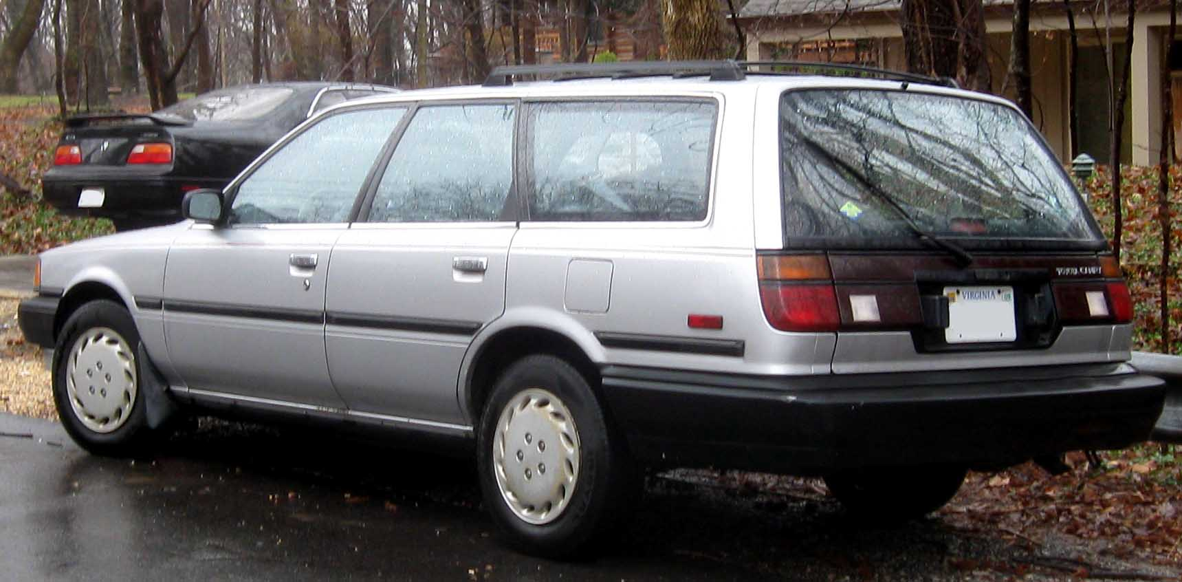 1987-1991 Toyota Camry photographed in Fort Washington, Maryland, USA.